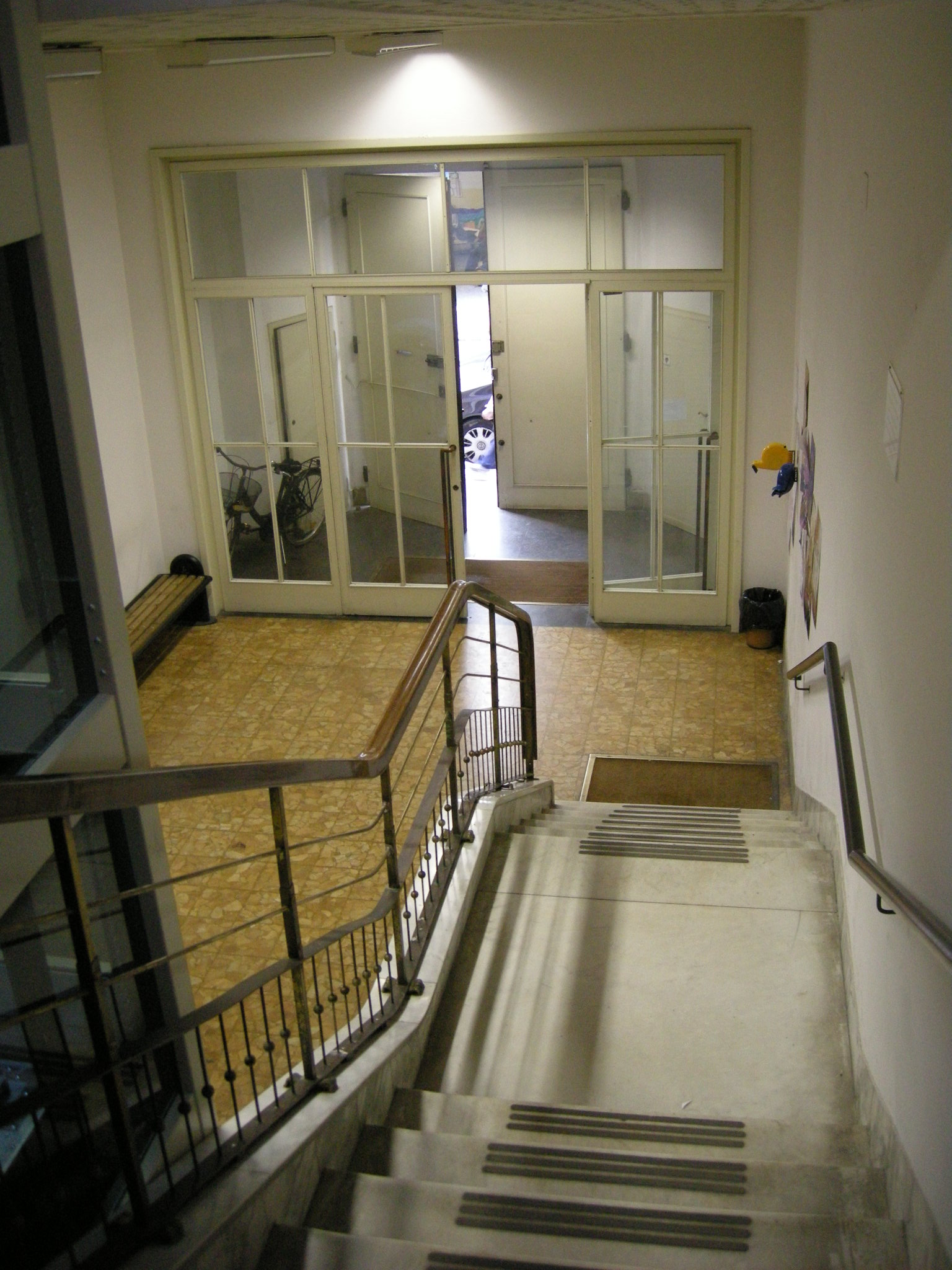 Ex sede Singer (Florence)